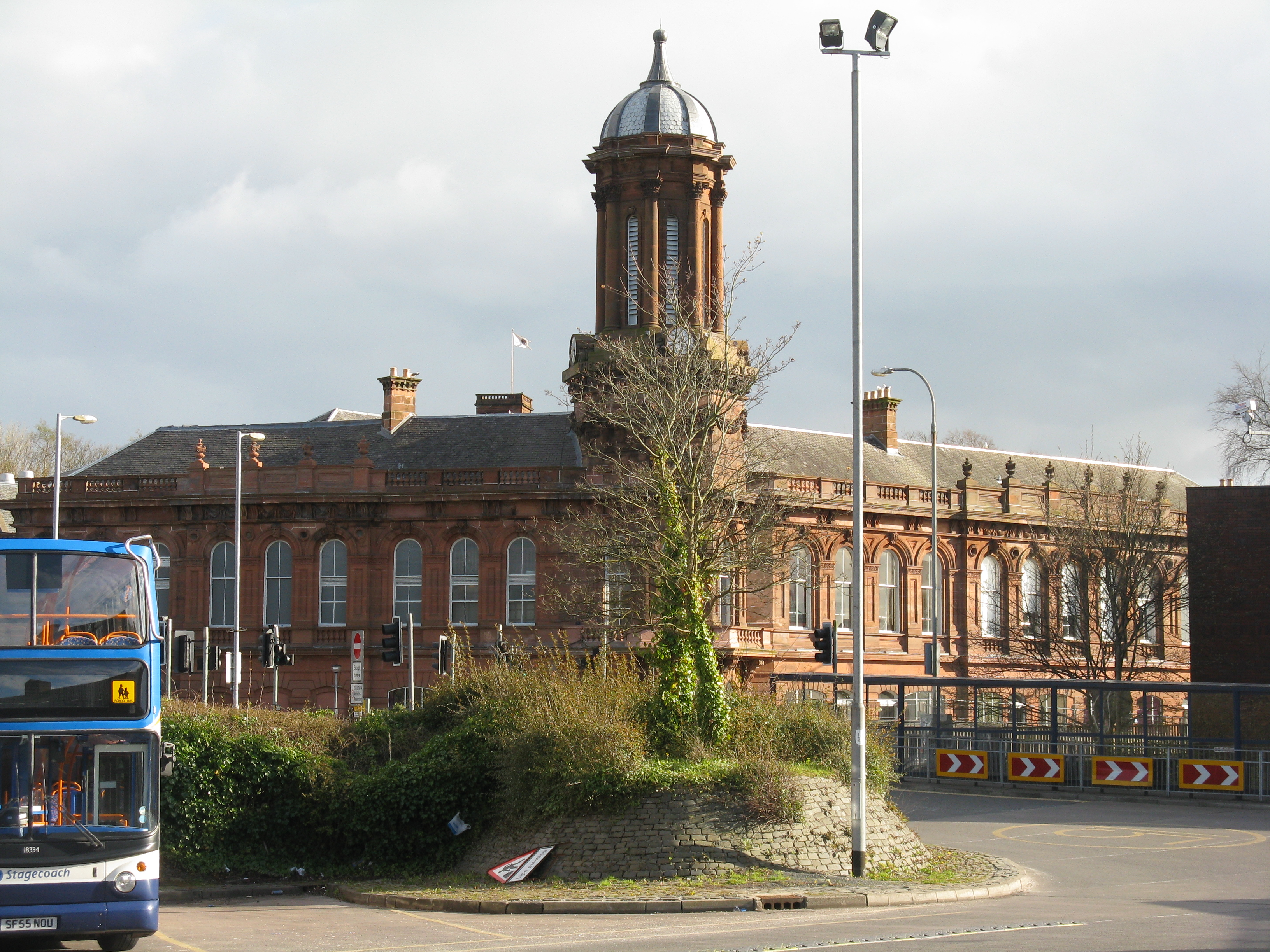 Bus station and Palace Theatre